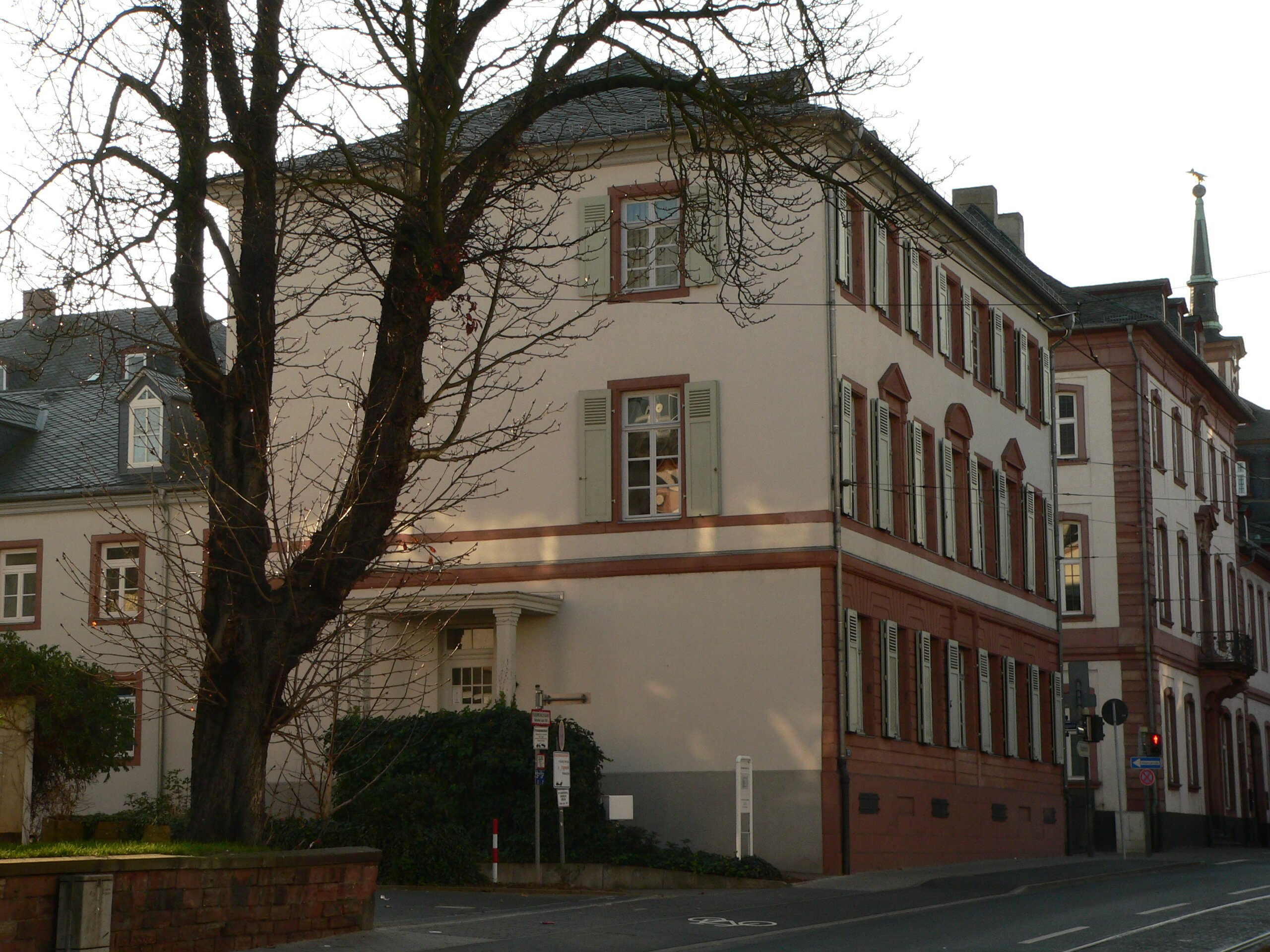 Former county court in Frankfurt-Höchst, office of Wikimedia Germany